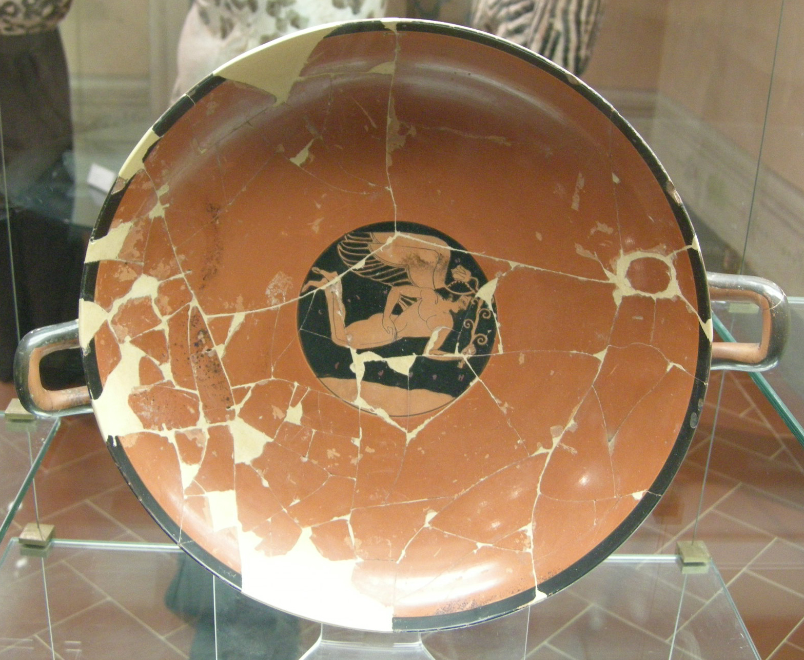 Eros flying above the sea and holding a flower (love gift). Attic red-figure kylix by Kachrylion (potter), ca. 510–500 B.C. Archaeological Museum of Florence, Inv. 91456. Beazley, ARV² 108/27. From Orvieto.